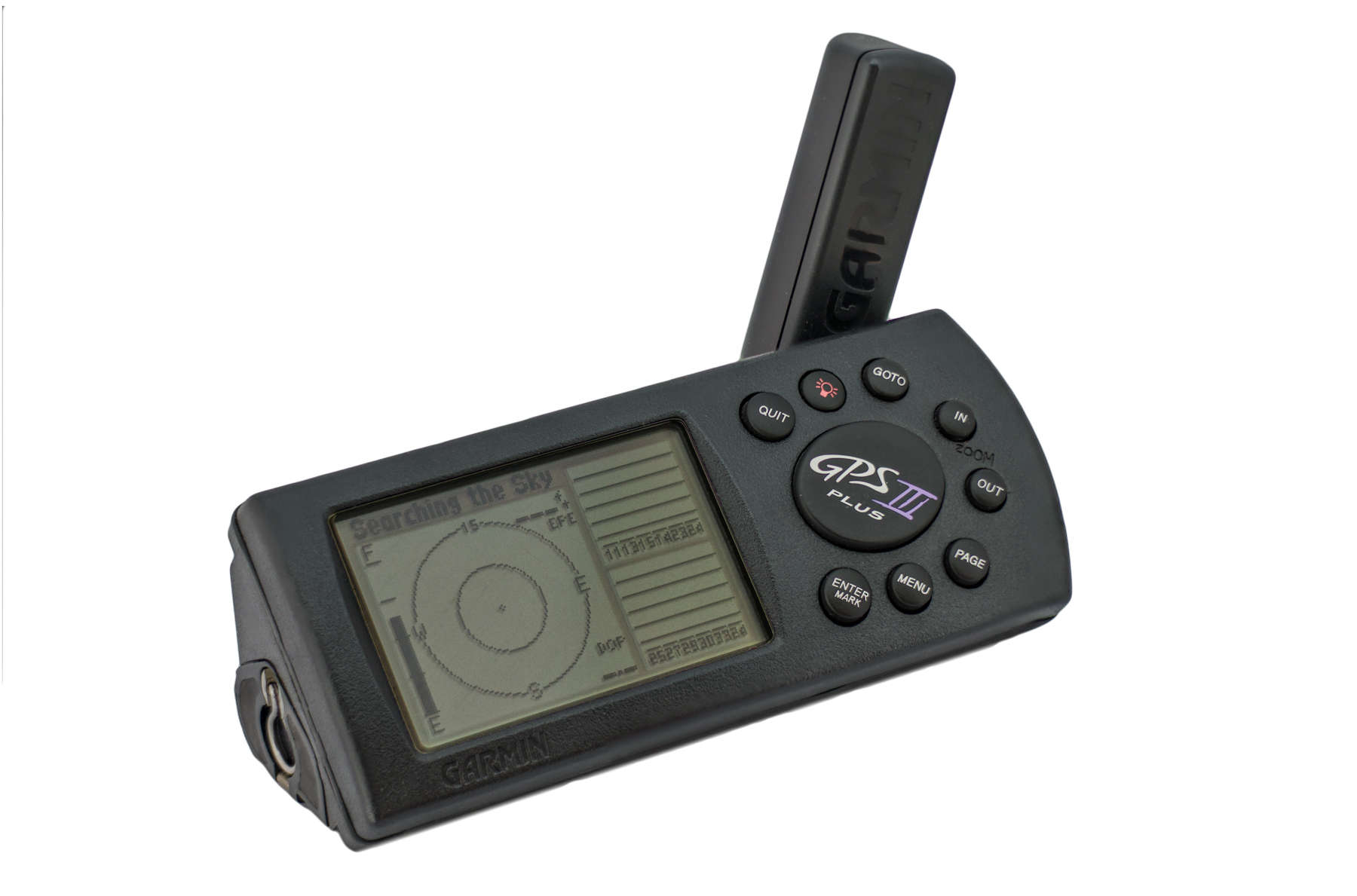 Garmin III Plus Outdoor GPS receiver